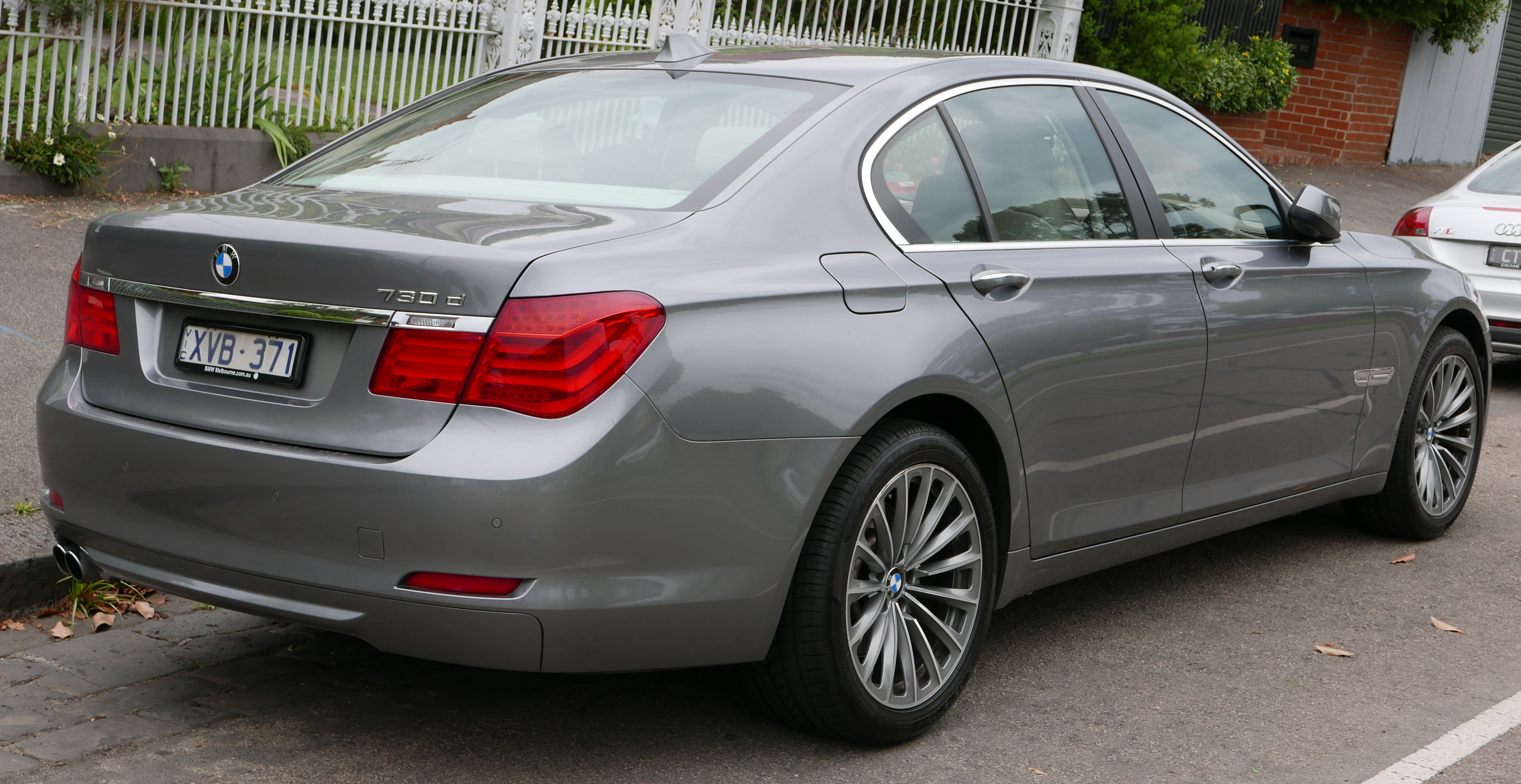 2010 BMW 730d (F01 MY10) sedan. Photographed in Princes Hill, Victoria, Australia. Vehicle registration enquiry resultsJurisdictionVictoriaRegistrationXVB371Chassis codeWBAKM22090CY75627Engine code25267385Compliance date2010-05Year of manufacture2010